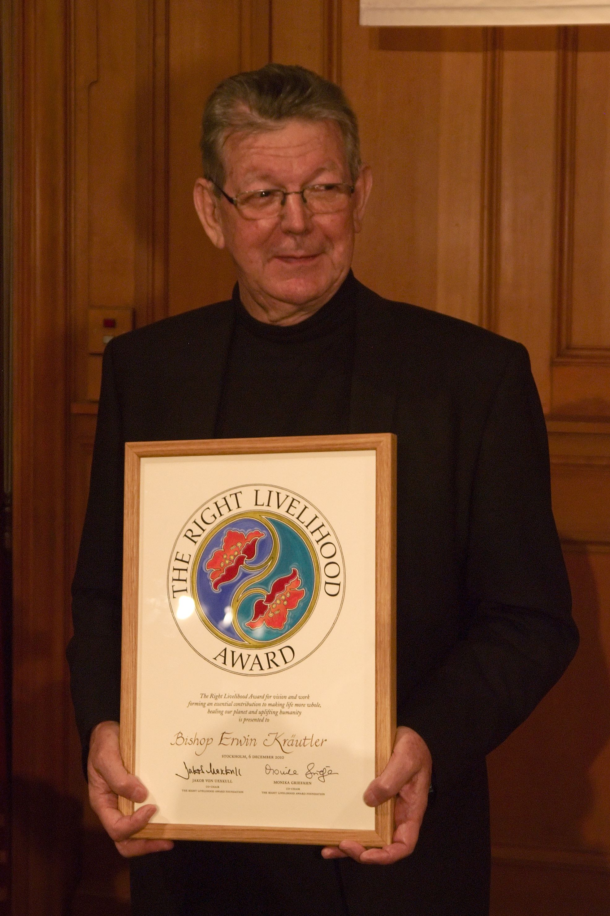 Award ceremony of the Right Livelihood Awards 2010